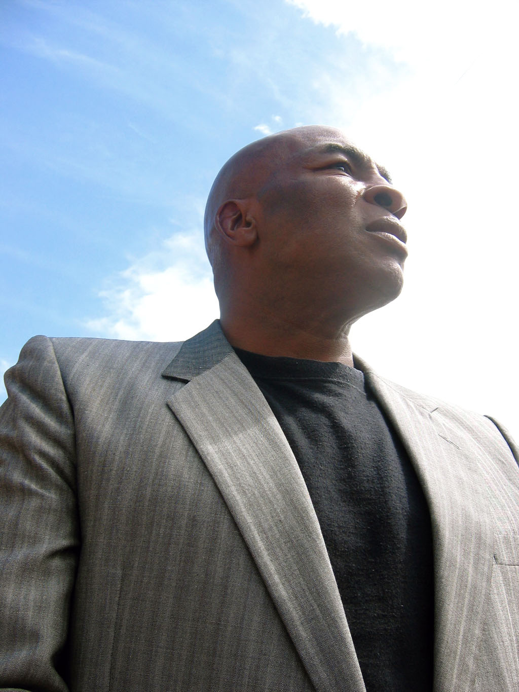 Earnie Shavers